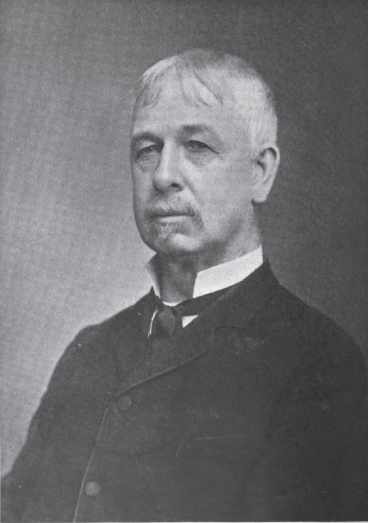 Kentucky Congressman William E. Arthur